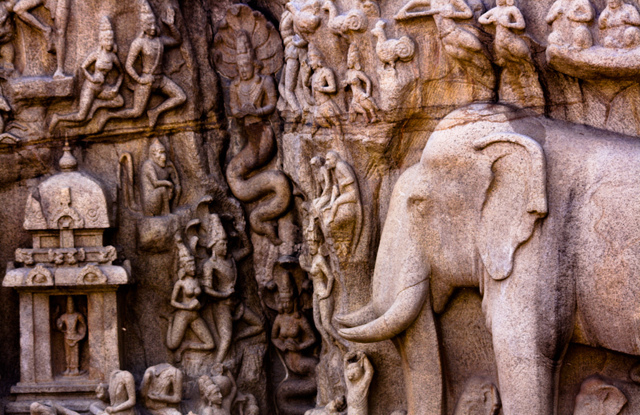 Close view of the Descent of the Ganges (Mahabalipuram)